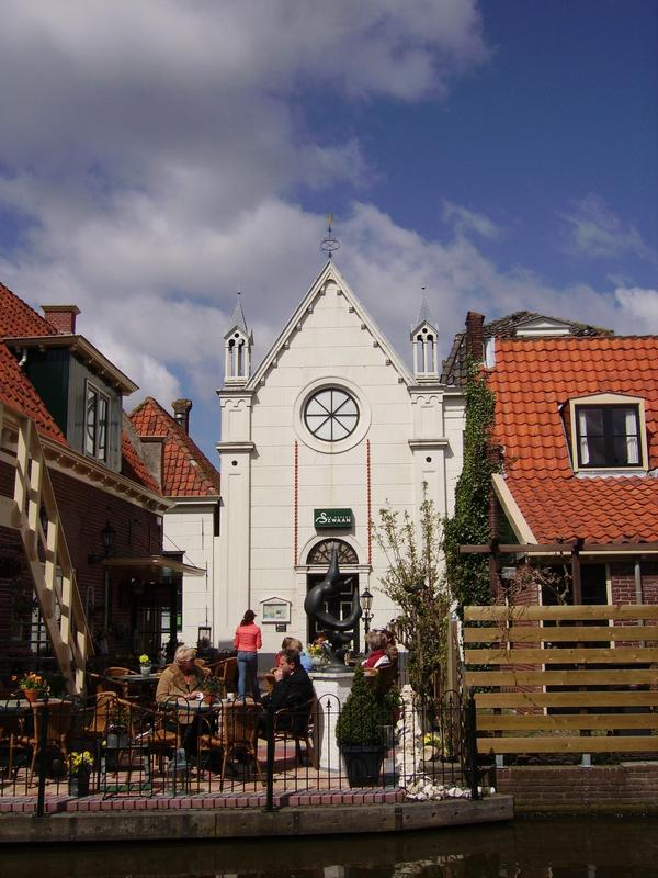 De Groene Zwaan (The Green Swan), a Lutherian church in De Rijp in the Netherlands, now in use as a cultural centre.